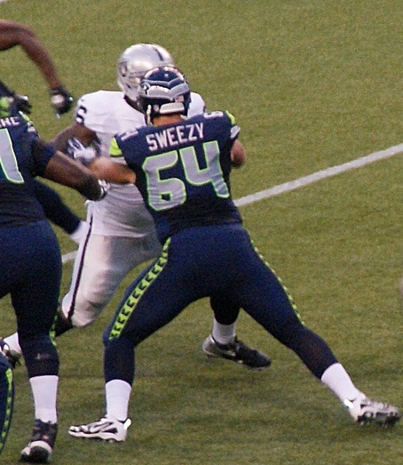 J. R. Sweezy blocking a Raider.